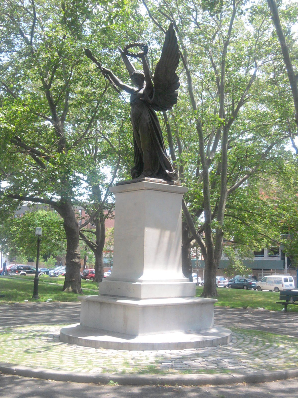 Looking southeast at the angel in Major Mark Park on a mostly sunny midday. Civil War monument was moved to a new park named for a WWI hero.